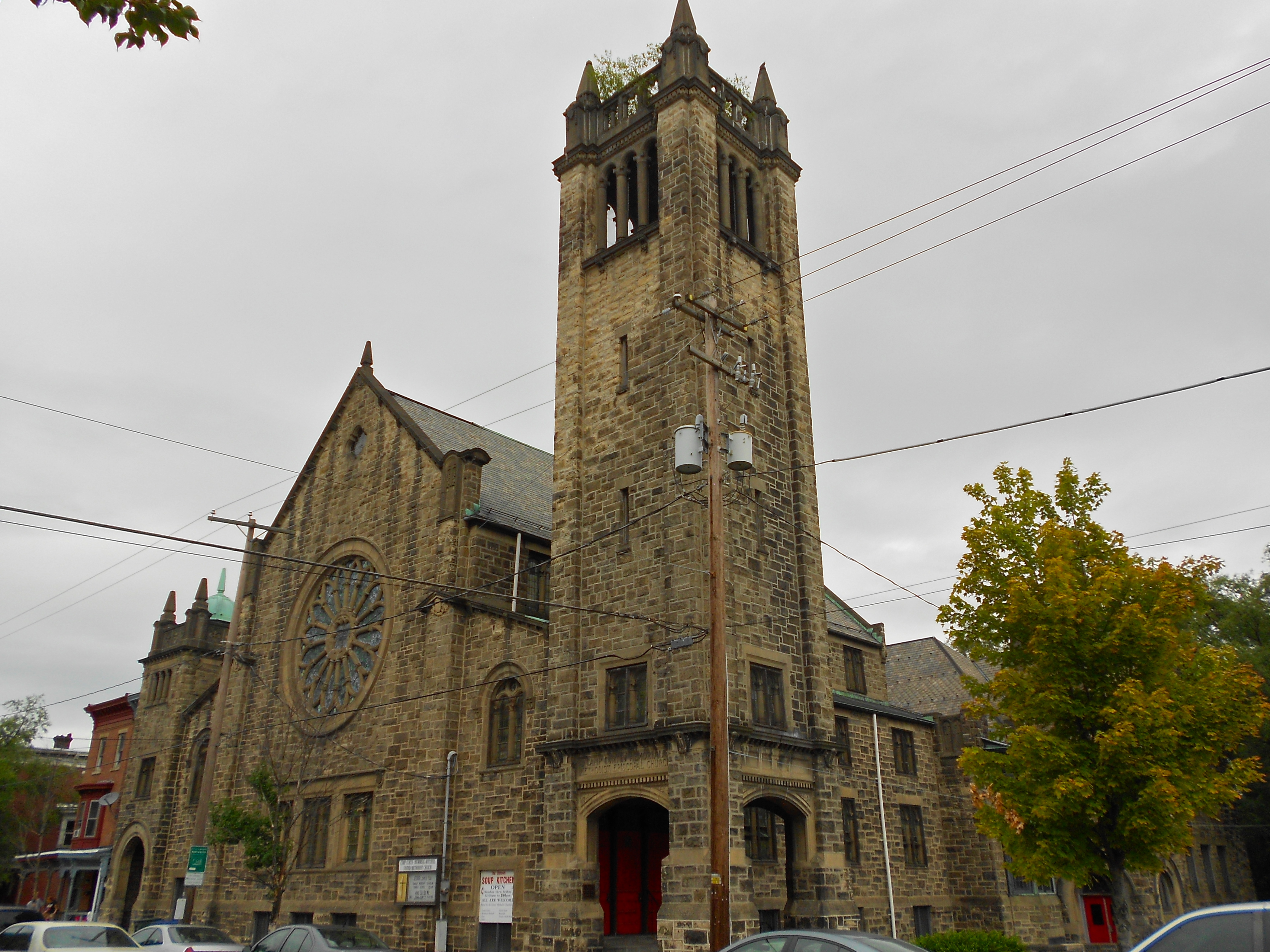 Camp Curtin Memorial Methodist Episcopal Church, listed on the NRHP on August 5, 2010, At 2221 North 6th Street, Harrisburg, Dauphin County, Pennsylvania.